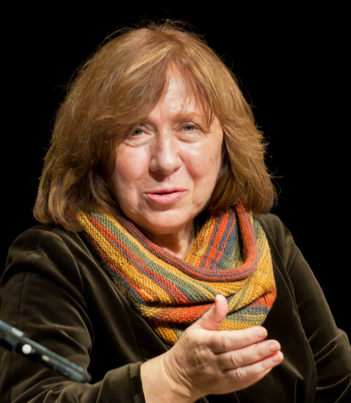 Svetlana Alexievich, a Belarusian investigative journalist and prose writer, Nobel laureate in Literature 2015